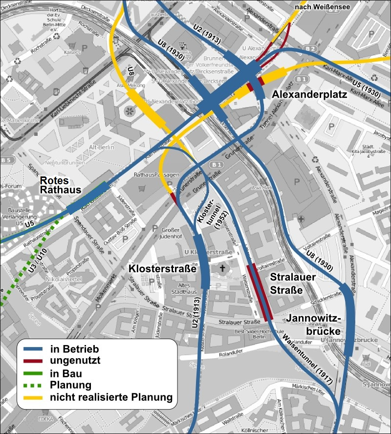 Berlin Underground tunnels in the Alexanderplatz area